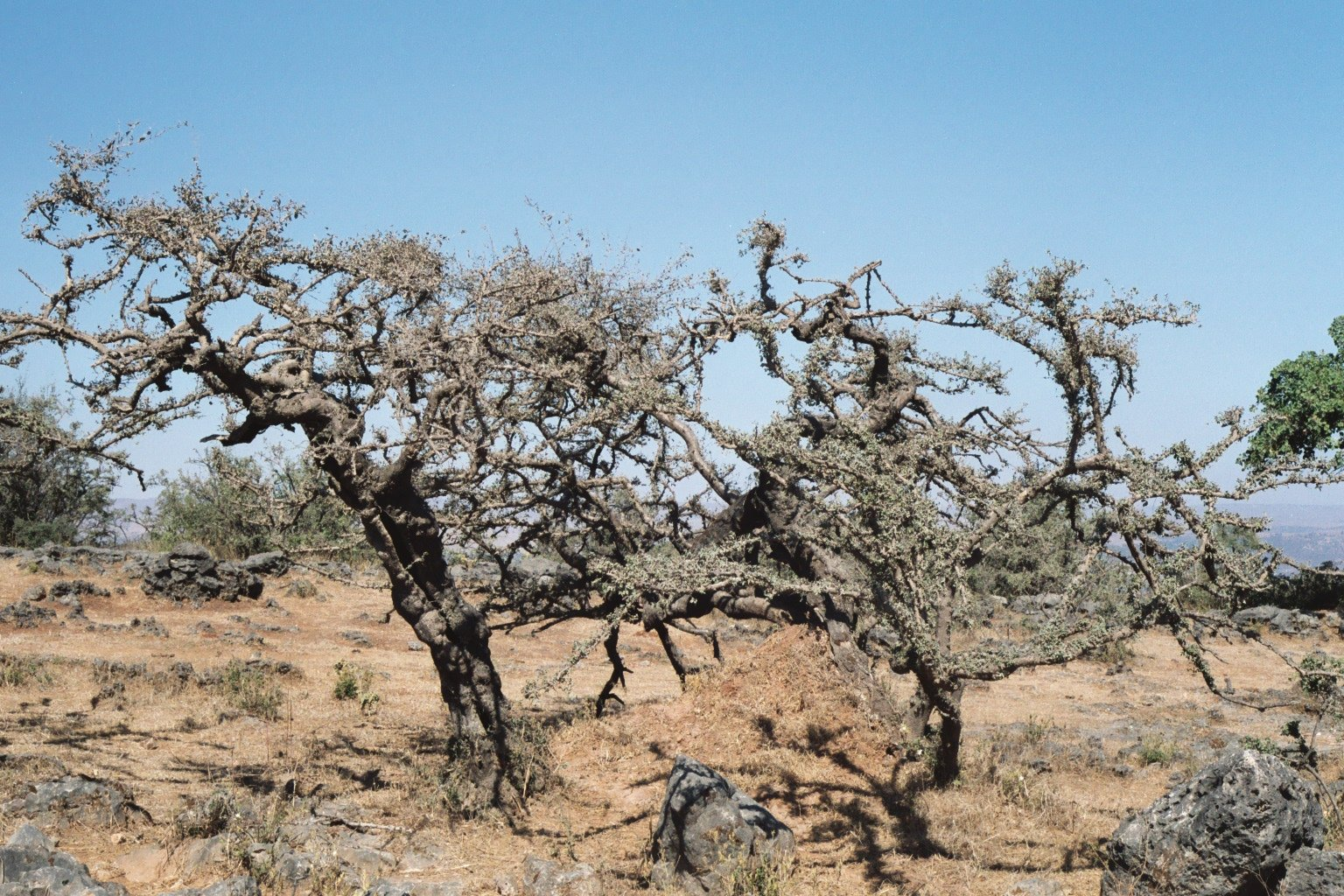 Unidentified trees, possibly members of the genus Ziziphus, in the Dhofar region of Oman